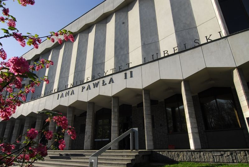 Gmach Główny Katolickiego Uniwersytetu Lubelskiego Jana Pawła II